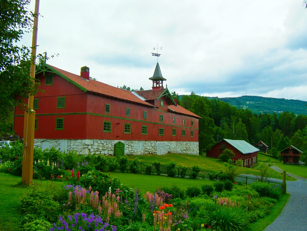 Barn in Aulestad, Gausdal, Norway.